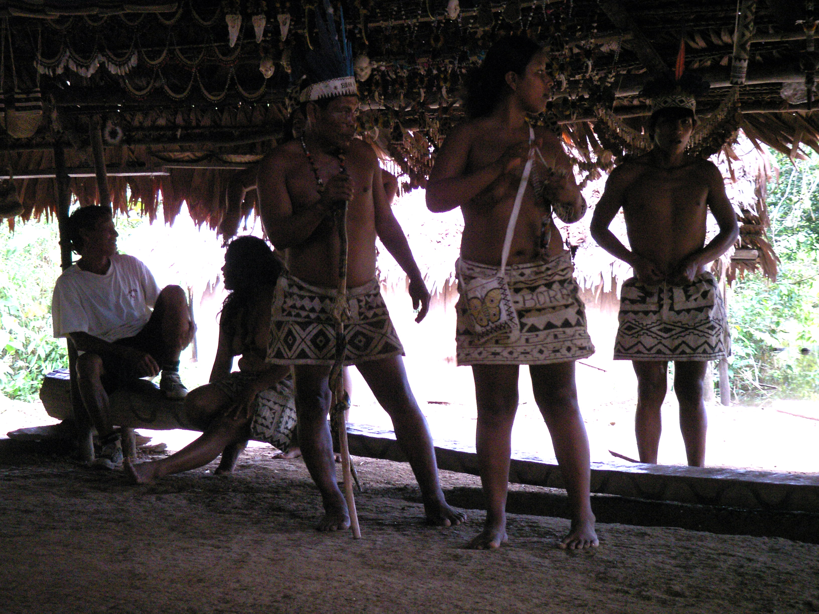 Bora Chief and other tribe members